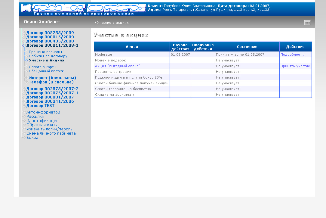 Marketing actions. Fastcom billing system